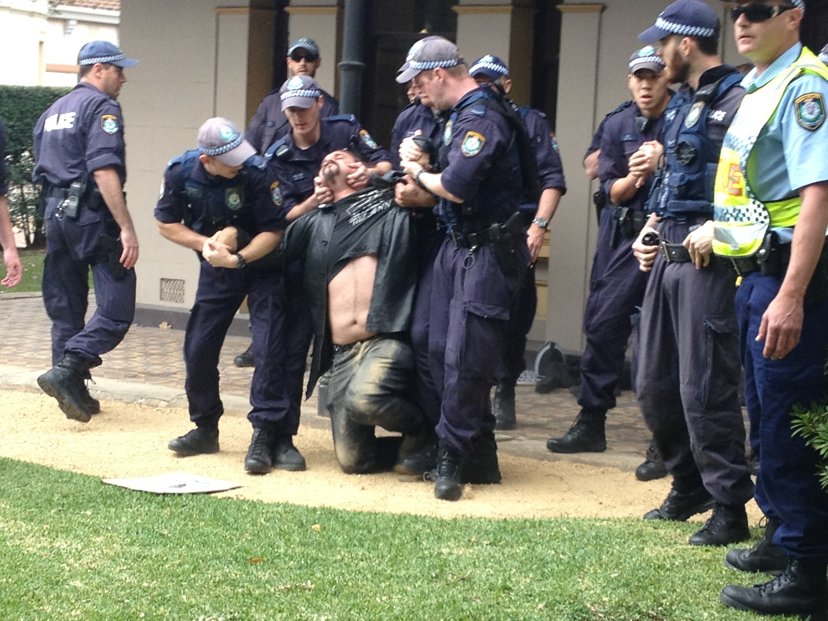 Protests over cuts in 2012. This heavy man was on the ground, police picked him up by the head.